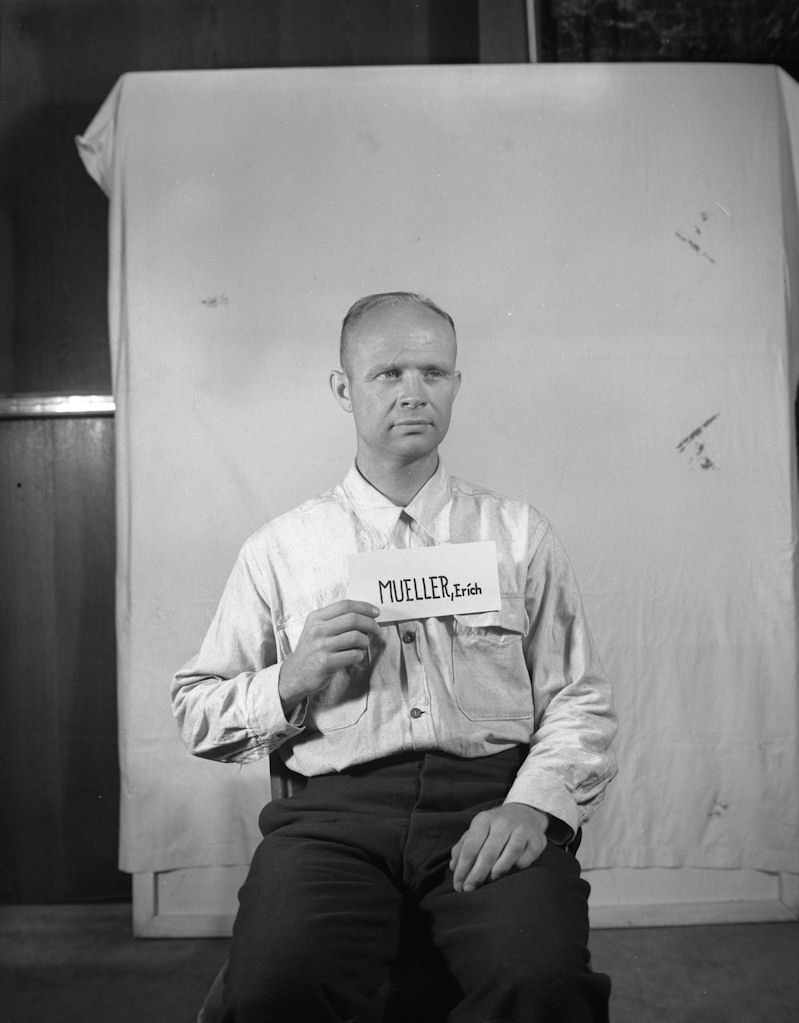 Erich Müller as a witness during the Nuremberg Trials.